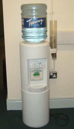 Water cooler supplied by Tipperary Water. Photo taken by Musical Linguist in February 2007.